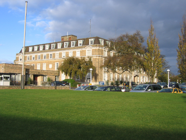 Shire Hall, Cambridge. – home to Cambridgeshire County Council